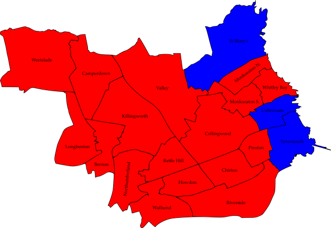 Map of the 2019 North Tyneside Council election results